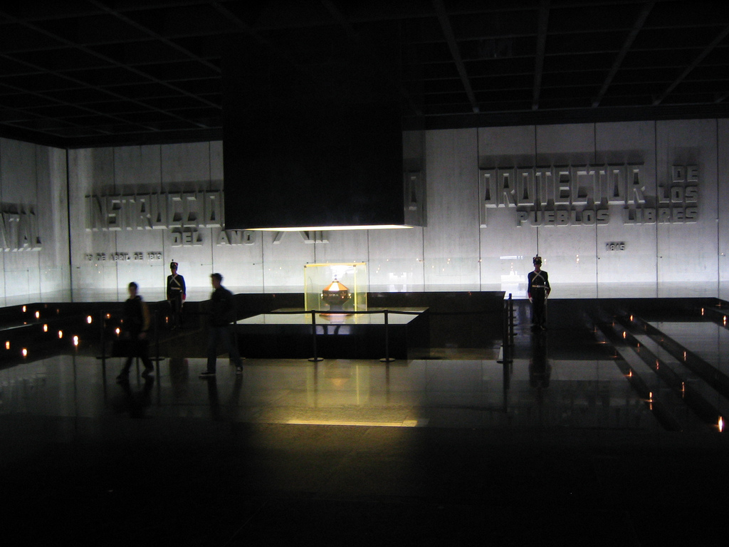 José Gervasio Artigas's Mausoleum in Montevideo, Uruguay.